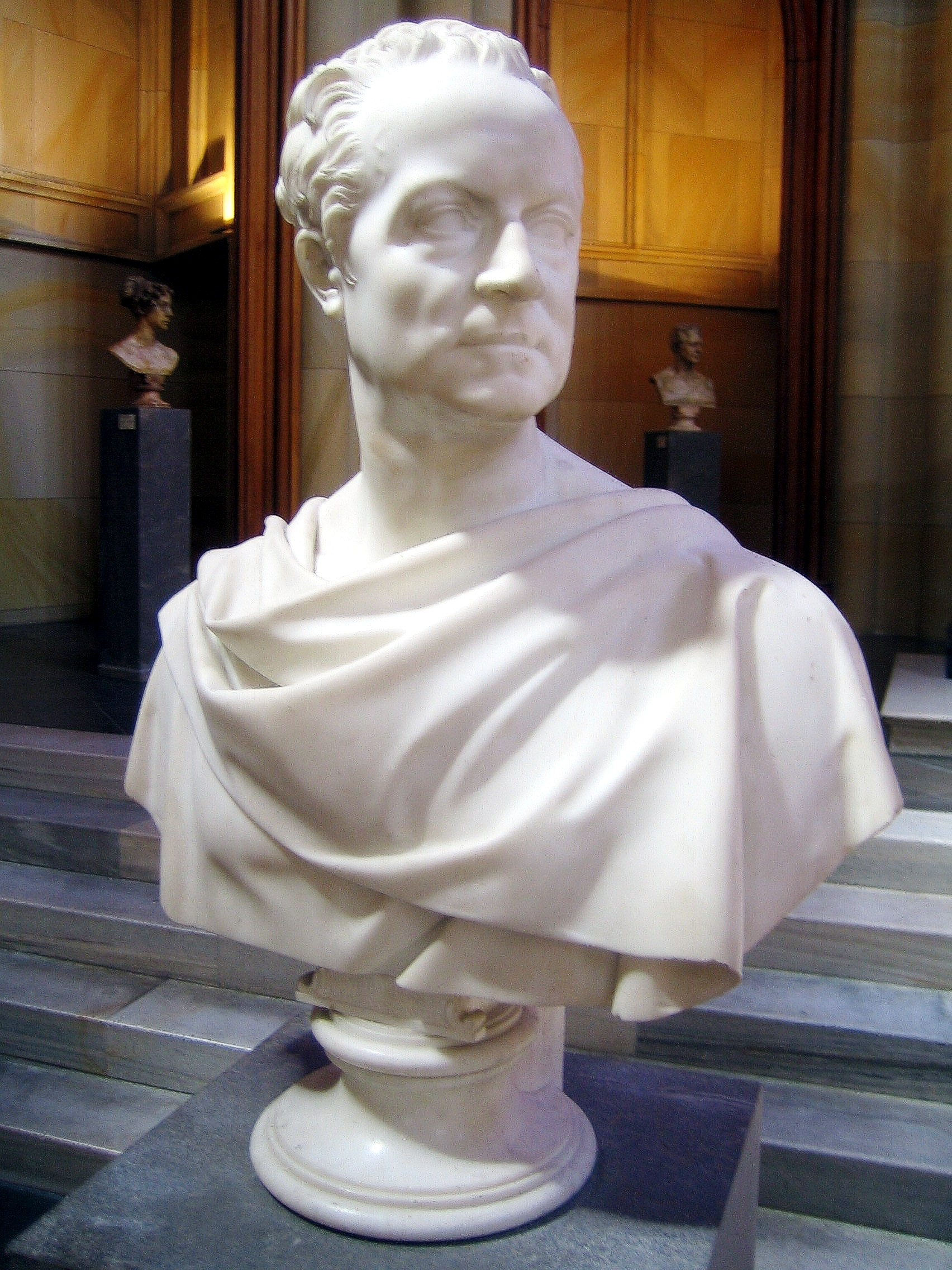 Portrait of Karl August von Hardenberg. sculptured by Johann Gottfried Schadow. Present location: "Friedrichswerdersche Kirche", today used as "Schinkelmuseum", in Berlin-Mitte.